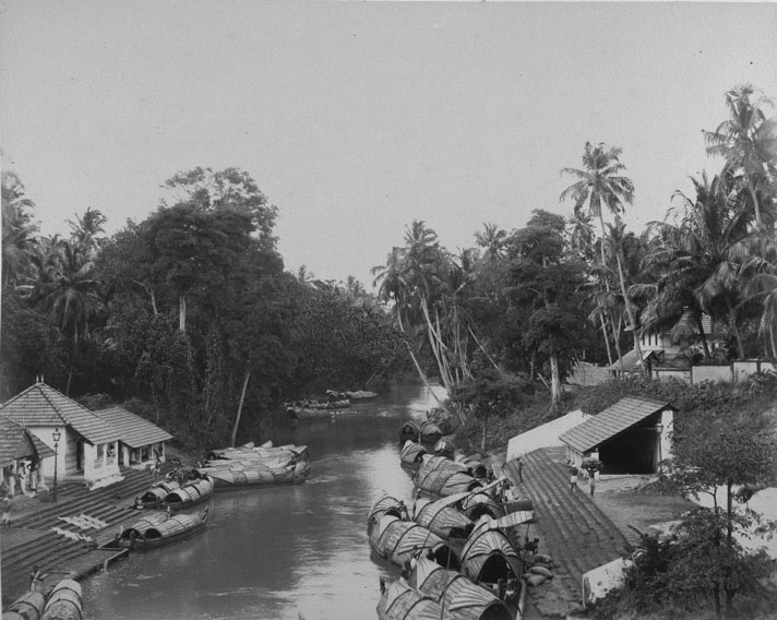 Photograph taken about 1900 by the Government photographer, Zacharias D'Cruz of a general view north from the bridge, Quilon. It is one of 76 prints in an album entitled 'Album of South Indian Views' from the Curzon Collection. George Nathaniel Curzon was Under Secretary of State at the Foreign Office between 1895-98 and Viceroy of India between 1898-1905. This image falls into the public domain as it was taken in India prior to 1 January 1951, and was not published in India after that date. It is in public domain in the United States as well as it was taken prior to 1 January 1951.